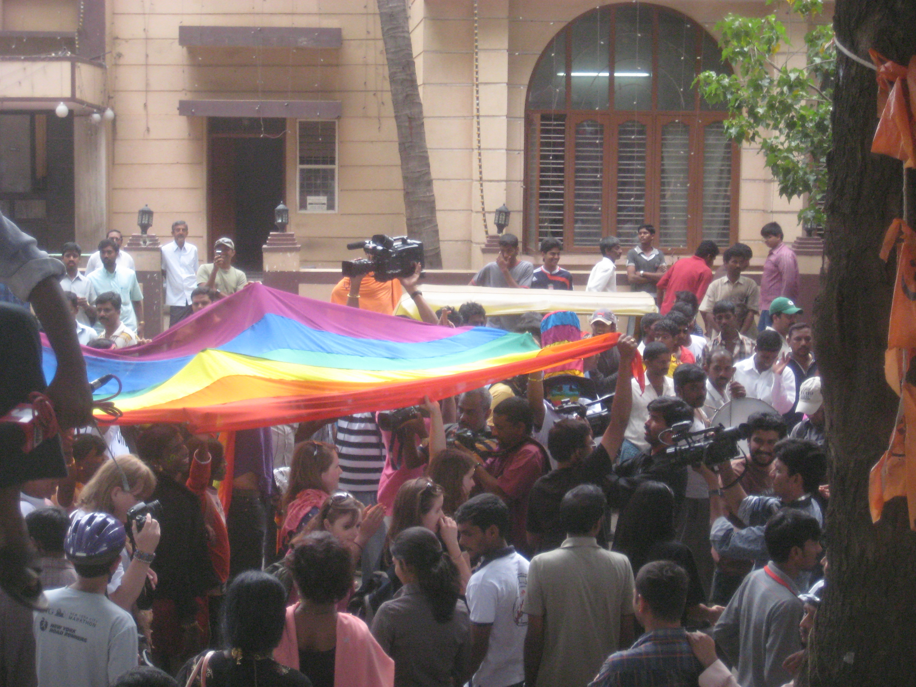 Bengalore, India celebrates its second annual gay pride parade, and I came to support and take photos. There was a crowd of perhaps 1000 (and I'd guess that maybe 5% were foreigners). There was a police escort, and I didn't notice any violence. Nonetheless, Indian culture can be conservative with respect to gay rights, and so many participants chose to wear masks.